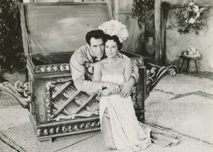 Paul Valentine and Eva Gabor in Love Island (1952) - publicity still (cropped)